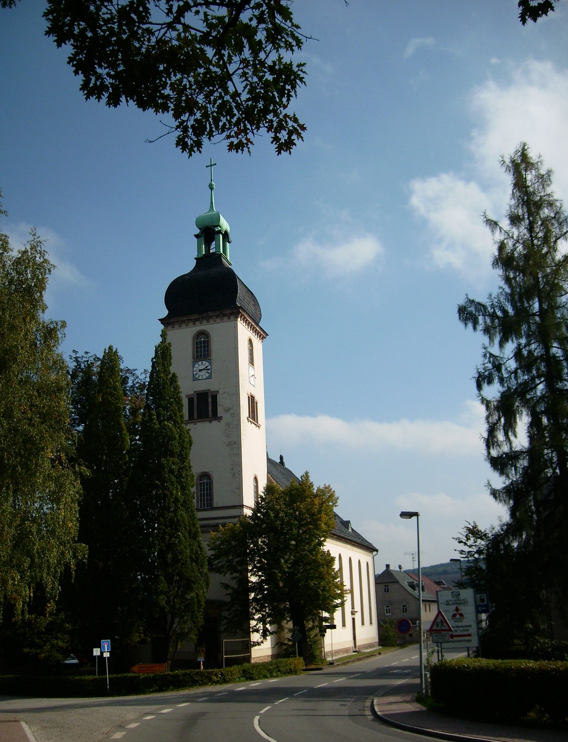 Luther Church in Altstadt Waldenburg (Waldenburg, Zwickau district, Saxony)